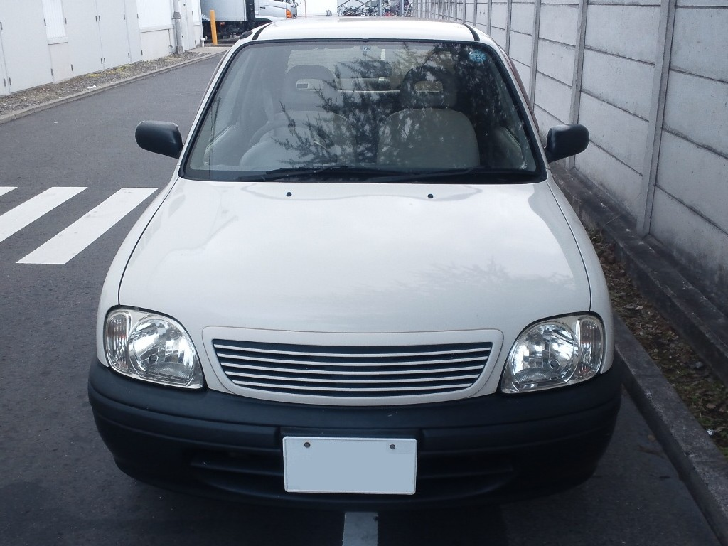 Nissan March K11 "MUJI CAR 1000" front